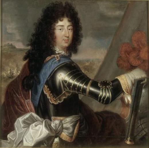 Philippe I, Duke of Orléans (1640-1701) brother of Louis XIV, wearing armour with fleur-de-lys of the Sash of the Order of the Holy Spirit